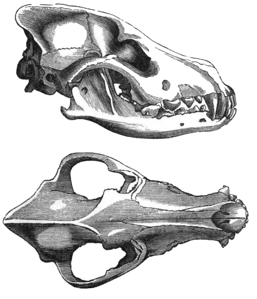 An illustration of a European wolf skull